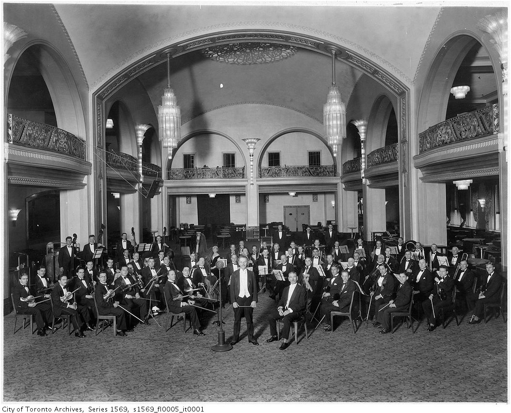 Founding Music Director and Conductor of the Toronto Symphony Orchestra Luigi von Kunits broadcasting with the Toronto Symphony Orchestra from Simpsons' Arcadian Court restaurant in 1929.